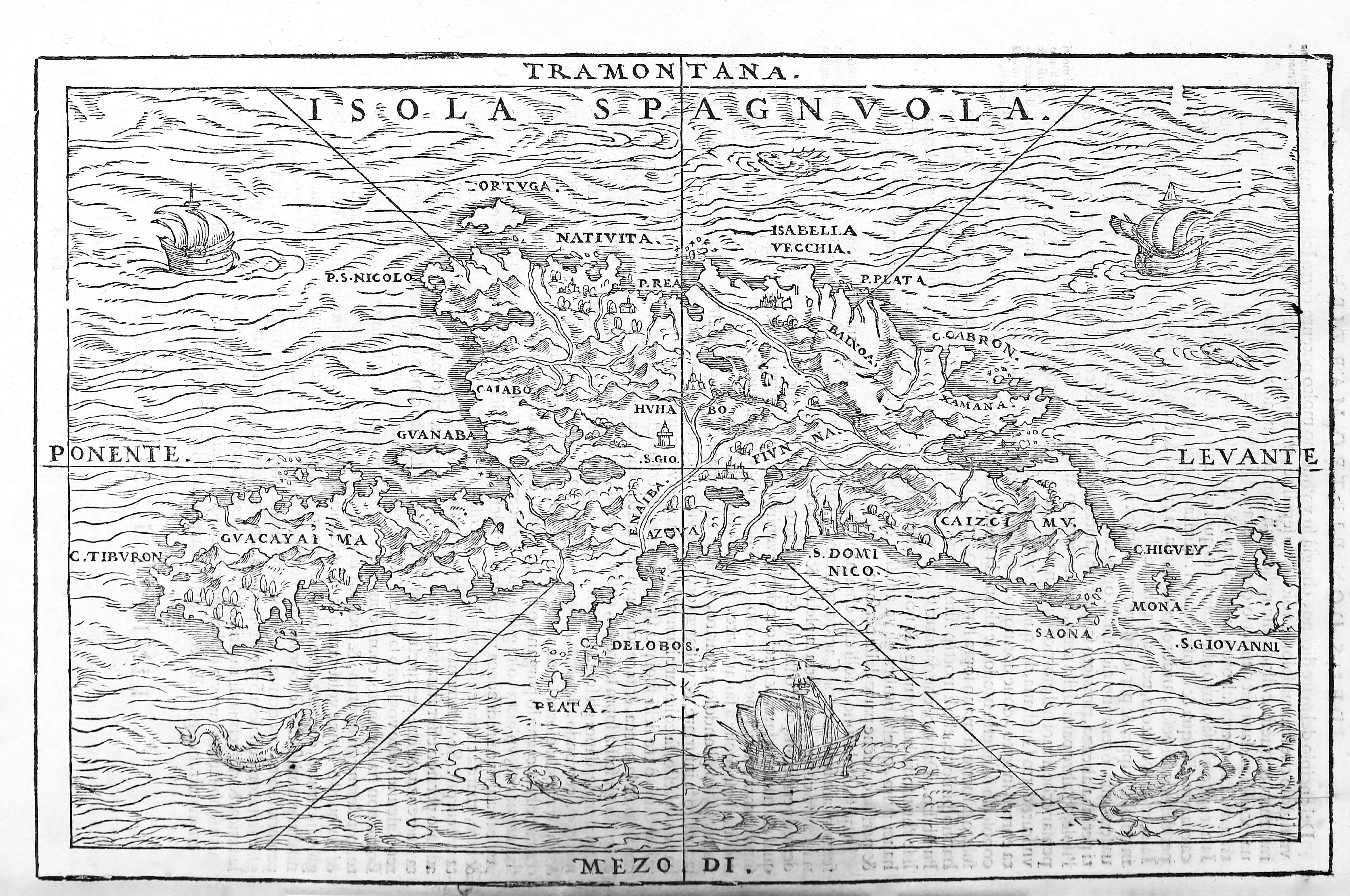 Undated Italian map of Hispaniola.